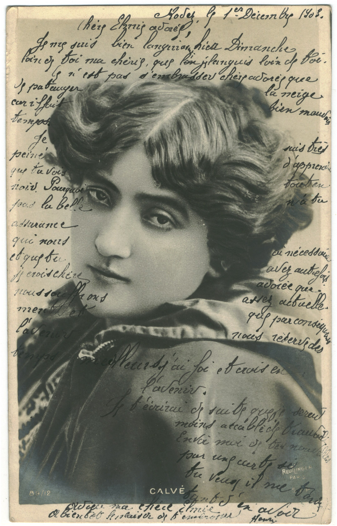 Emma_Calvé, SIP 89-12, by Reutlinger.